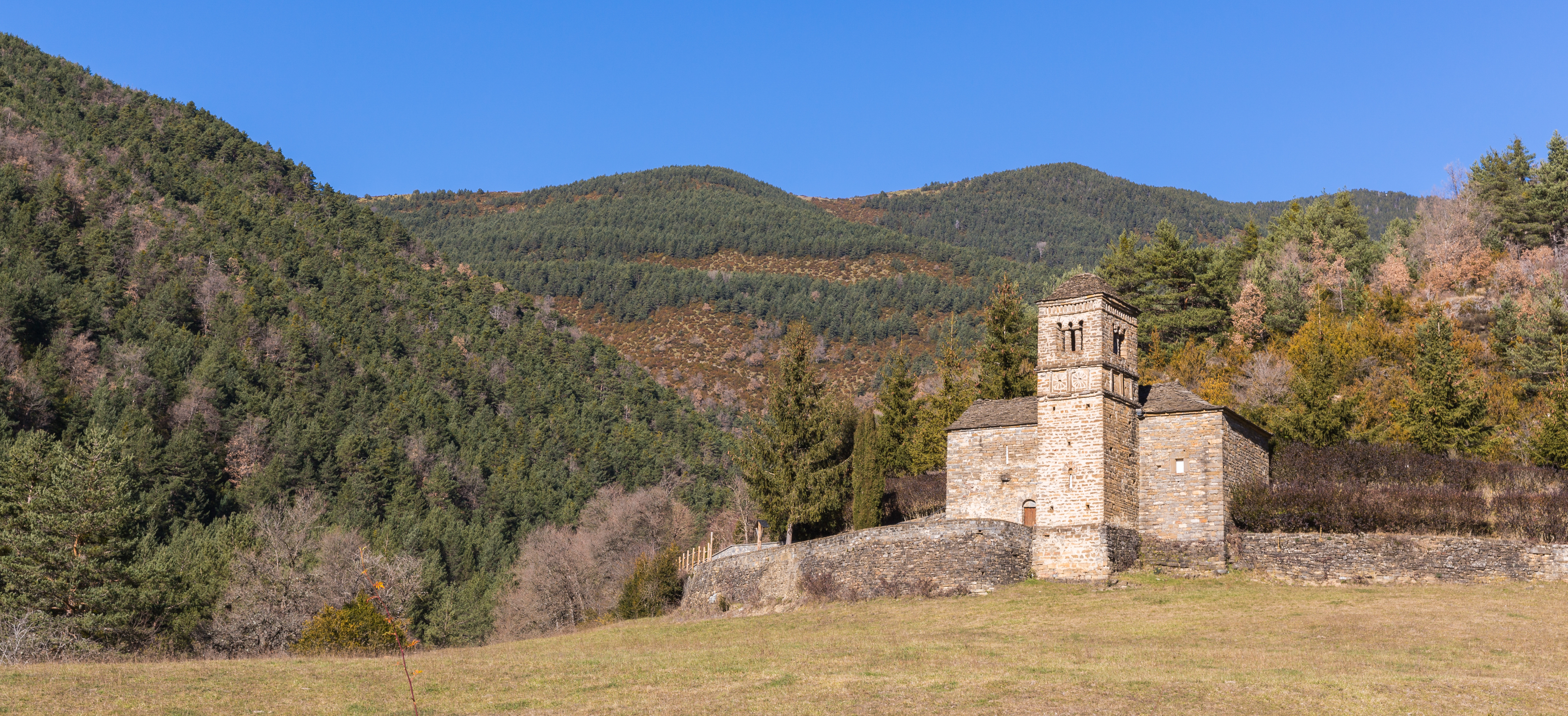 Church of St. Bartholomew, Gavín, Huesca, Spain